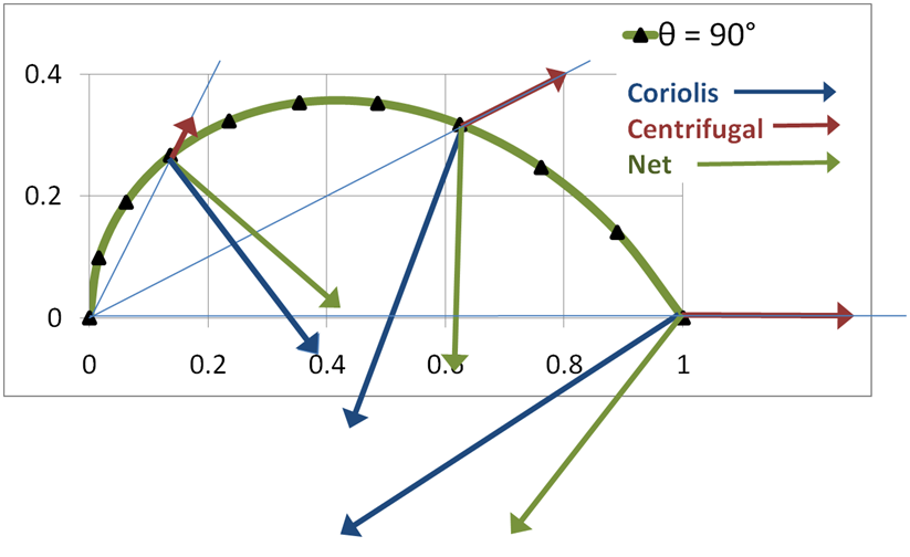 Coriolis force, centrifugal force and net force on trajectory of cannonball on carousel